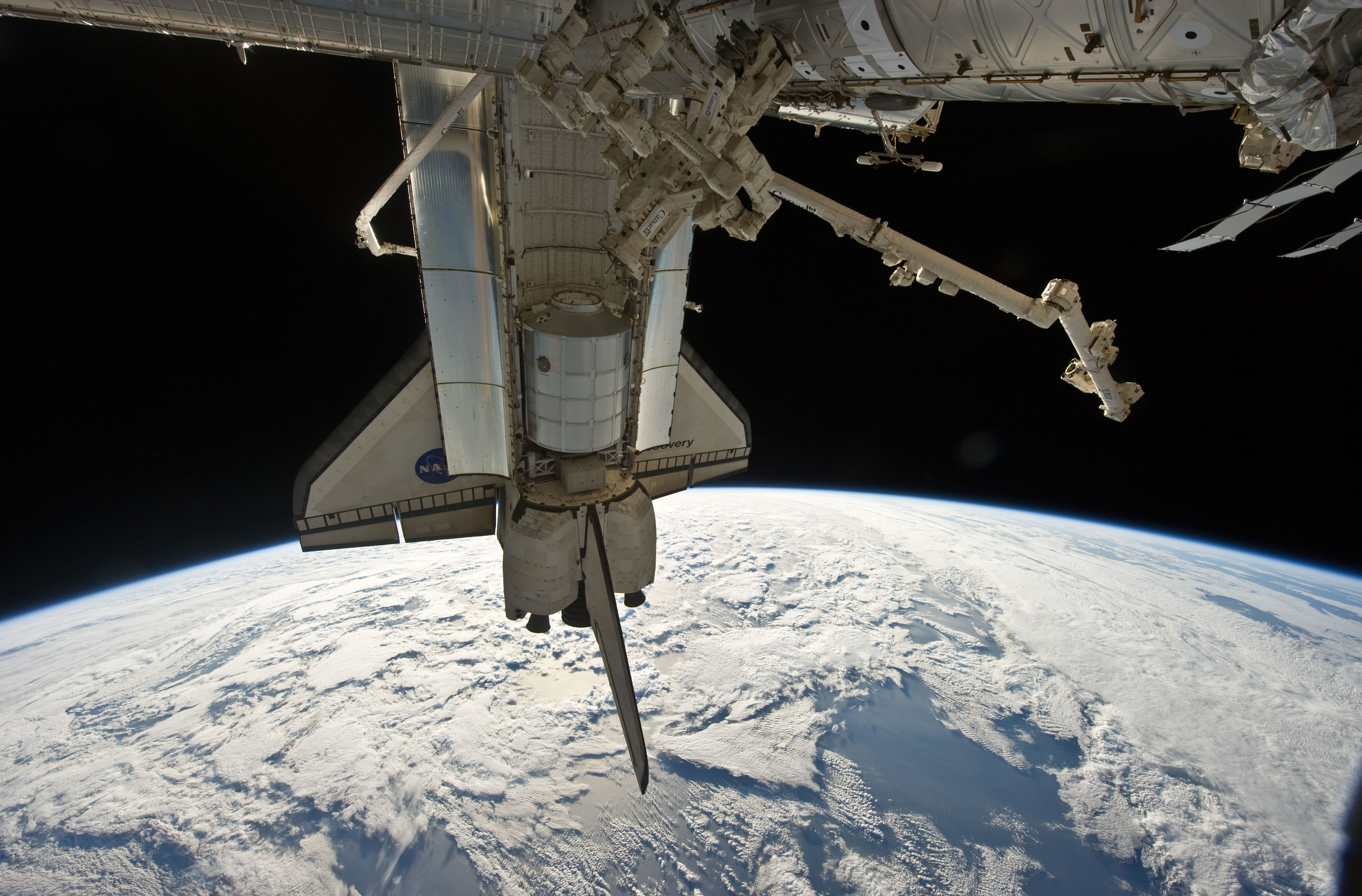 The docked space shuttle Discovery is featured in this image photographed by an STS-131 crew member on the International Space Station. The Leonardo Multi-Purpose Logistics Module is visible in Discovery's payload bay. Earth's horizon and the blackness of space provide the backdrop for the scene.